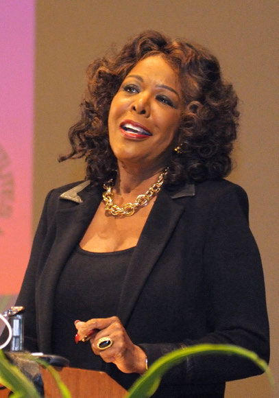 News Anchor J C Hayward Keynotes African-American History Celebration. A 40-year veteran of WUSAChannel 9 News, Hayward said, “We have generations of black women to thank for where we stand today.”